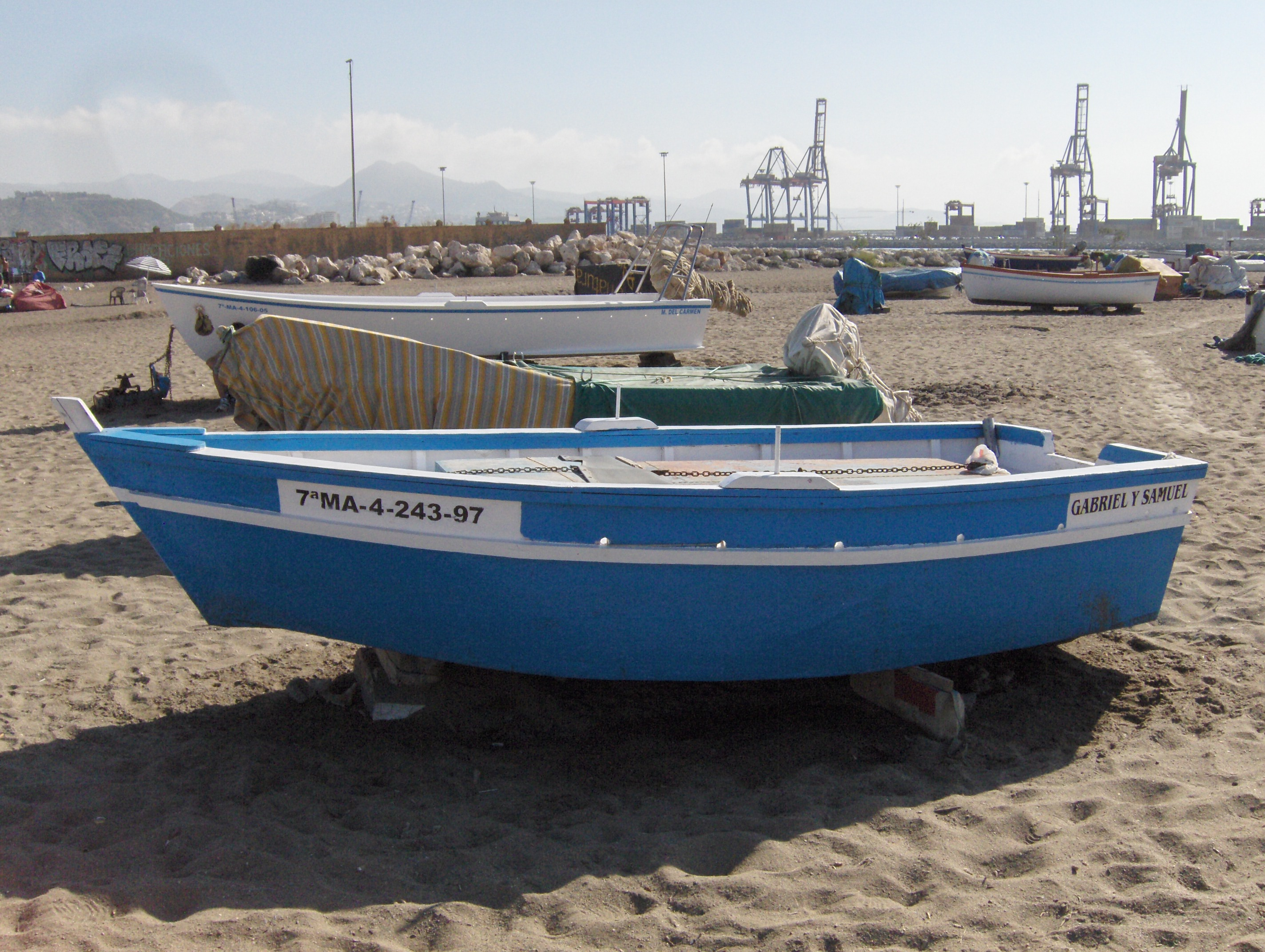 Boats in San Andrés Beach, Málaga.